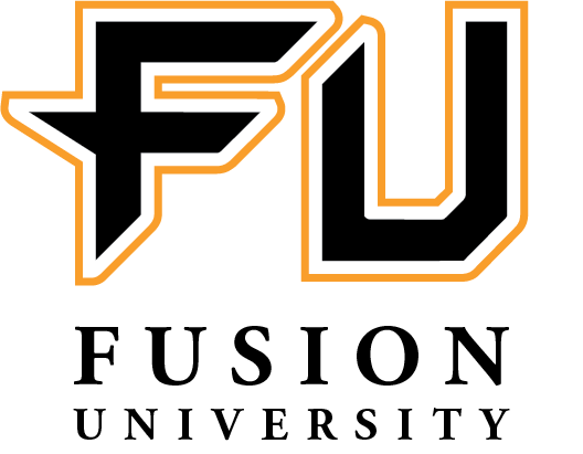 This is the logo for Fusion University.